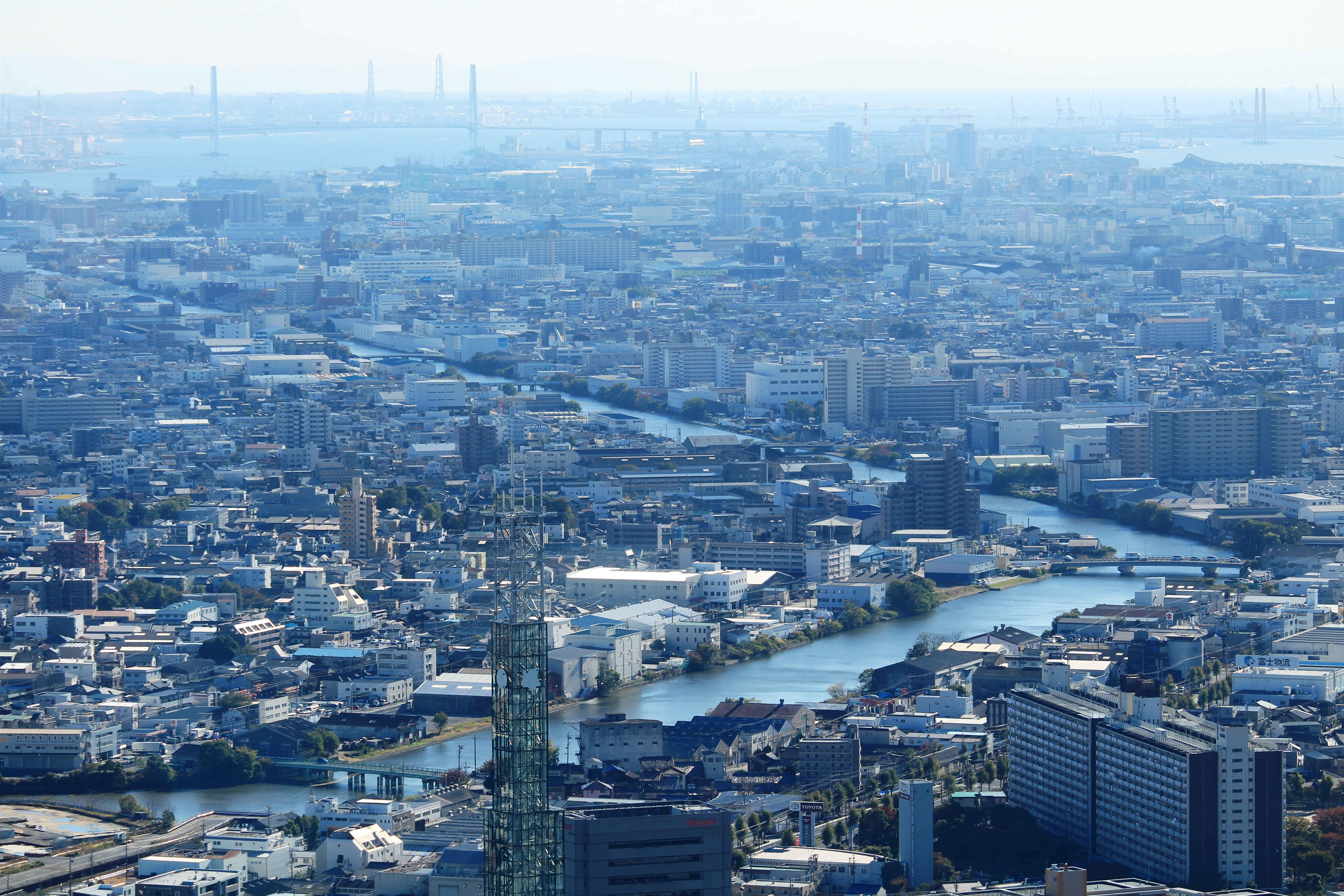 Nakagawa Canal and Port of Nagoya seen from Midland Square in Nagoya, Aichi Prefecture, Japan.